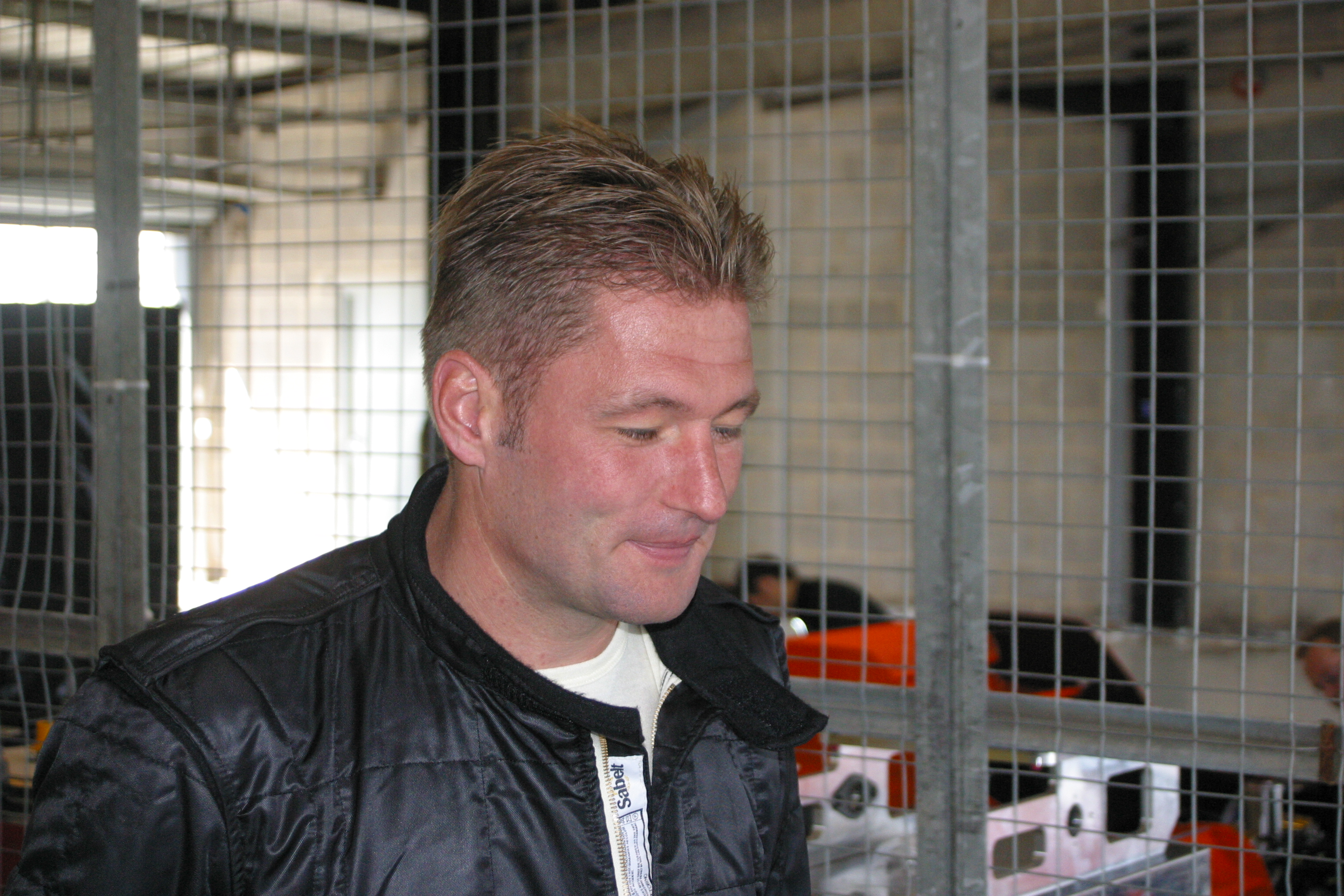 Jos Verstappen at the A1 GP test in Silverstone, 2005